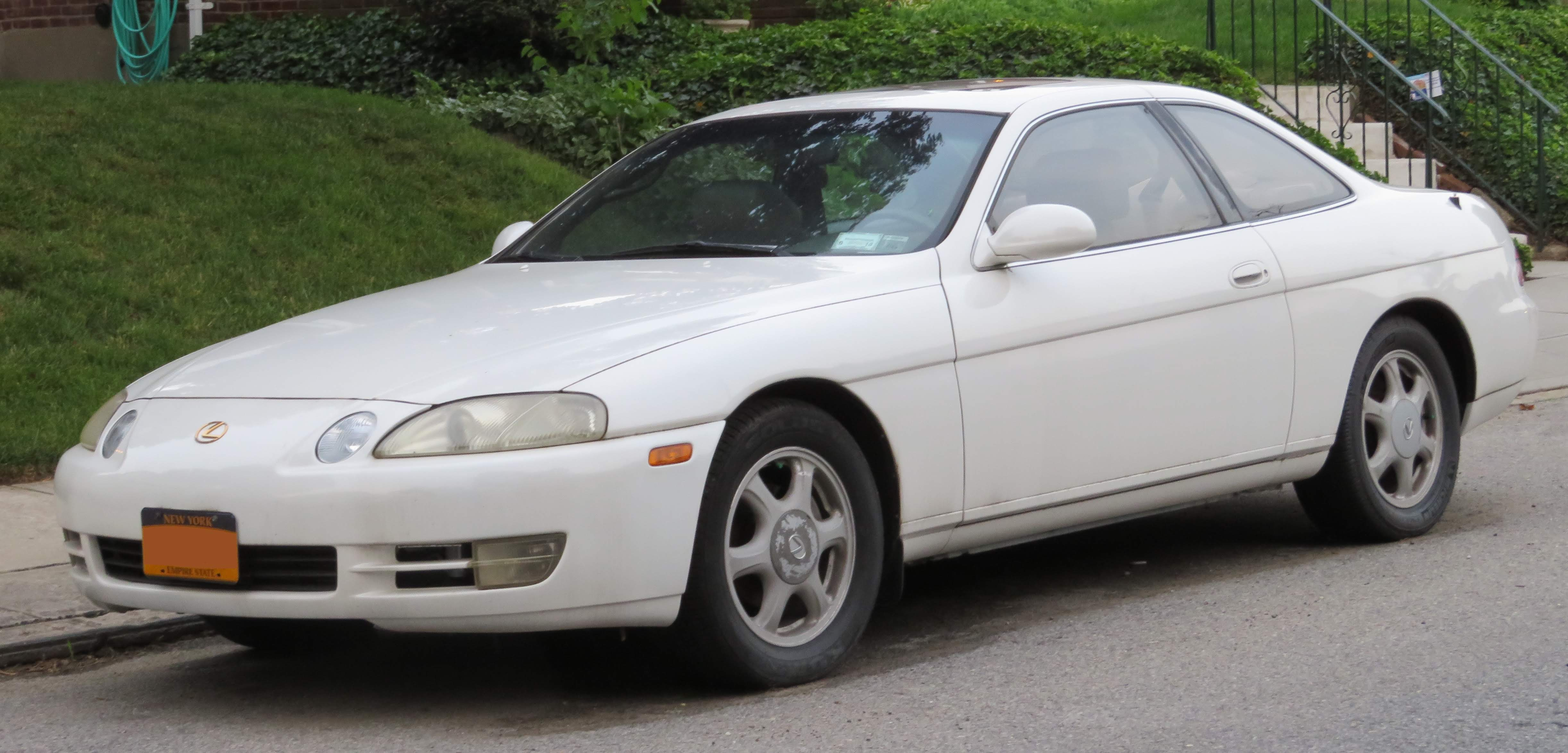 Photographed in Queens, New York